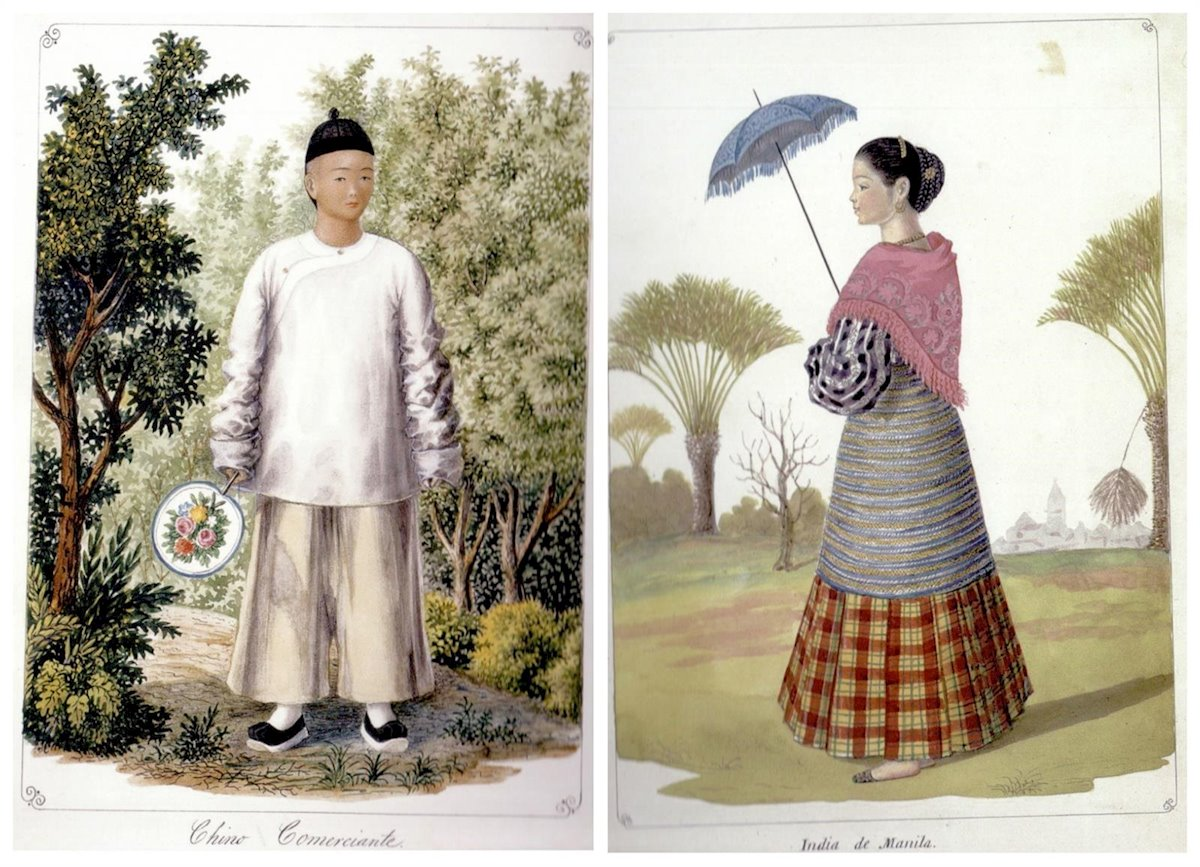 "Chino Comerciante" & "India de Manila" Tipos del País (19th Century Watercolor) by José Honorato Lozano